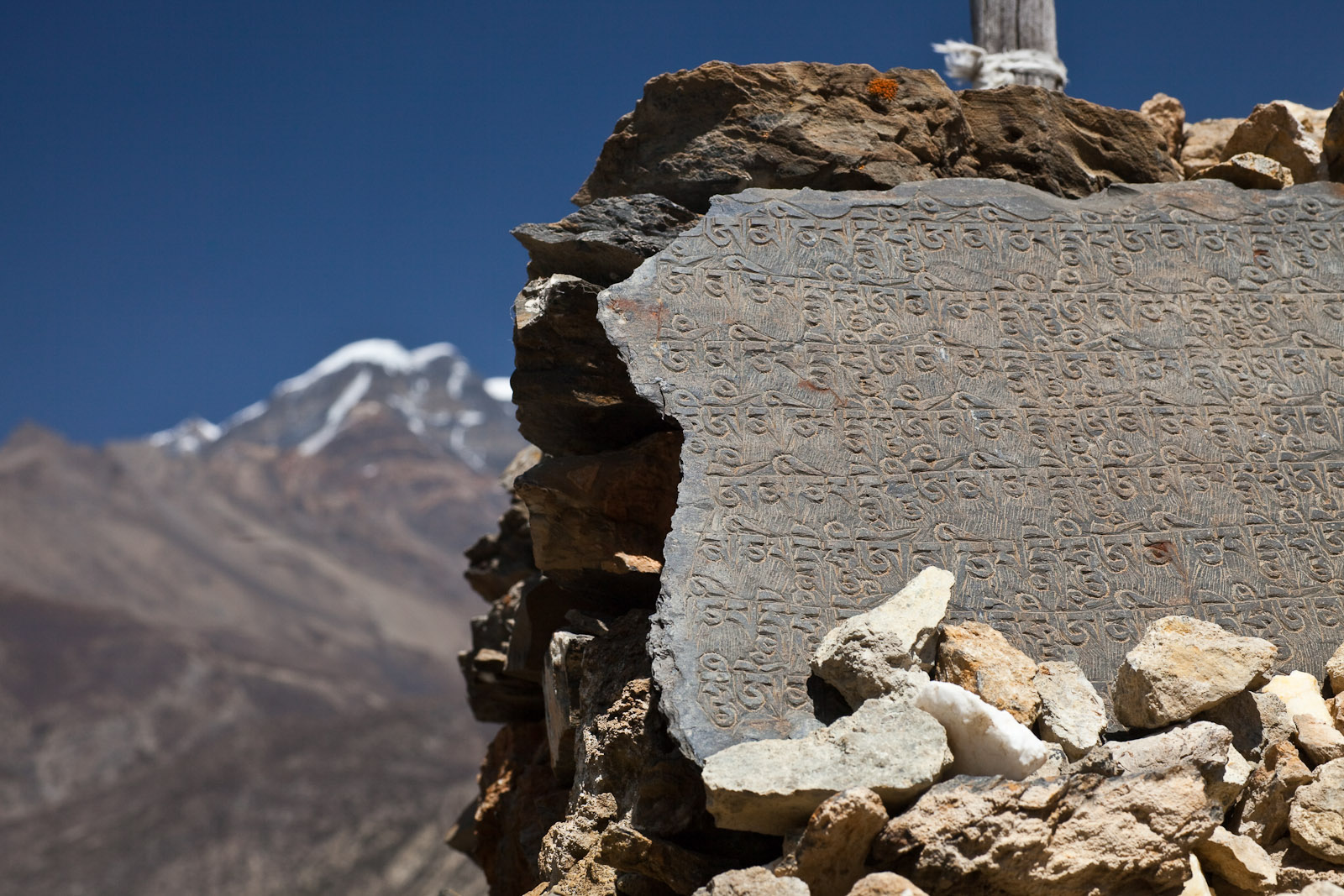 Inscribed slate on a chorten